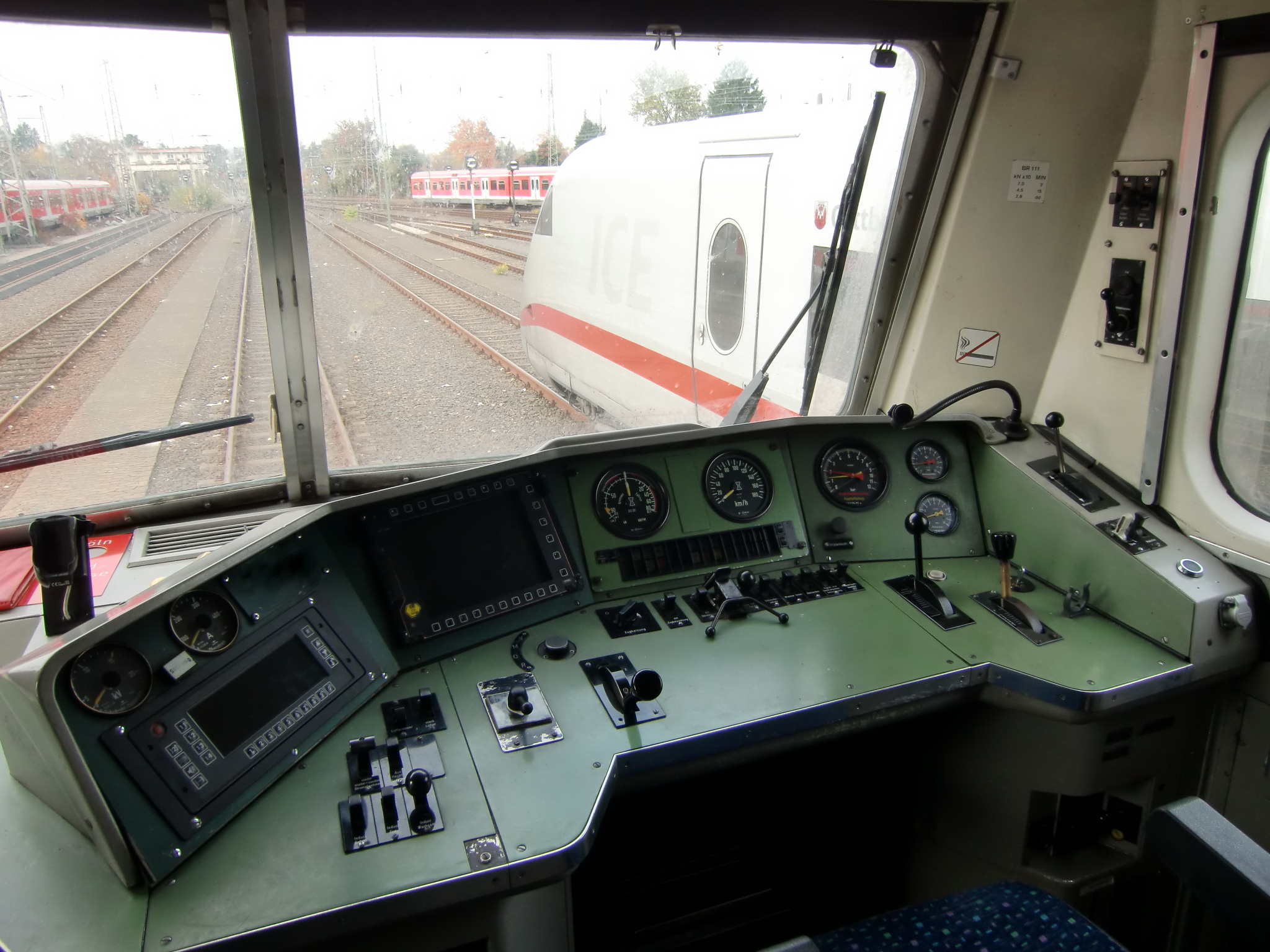 Cab from DB class 111